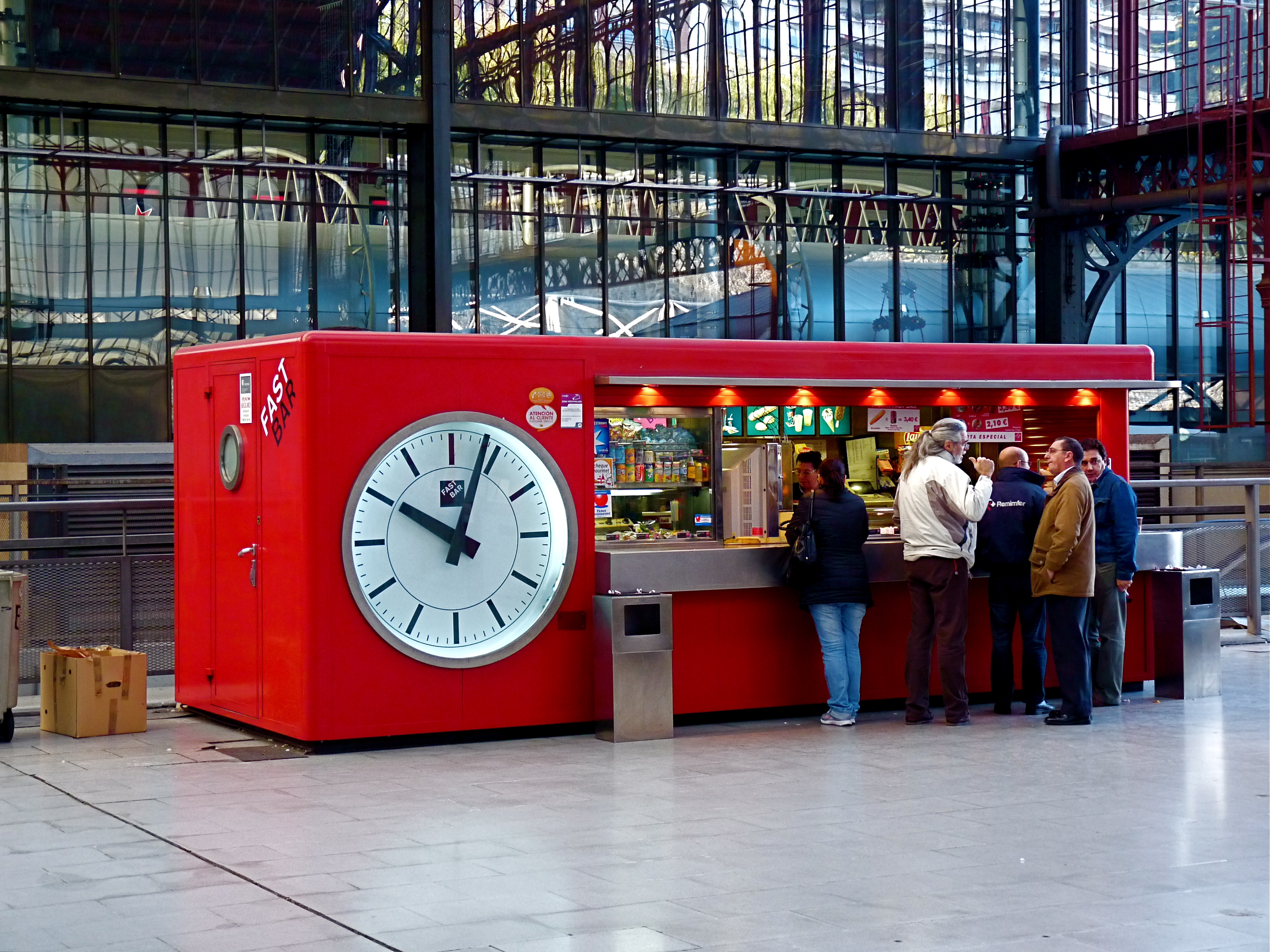 "Fast Bar" Clock Sign in the Principe Pío Station in Madrid Spain. The Fast Bar concept allows you to have a quick snack before taking a train (train stations) ot flight (airports). Public Clock Photography by Arjan Richter